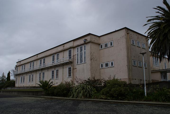 Pukeora estate / old hospital staff quarters.